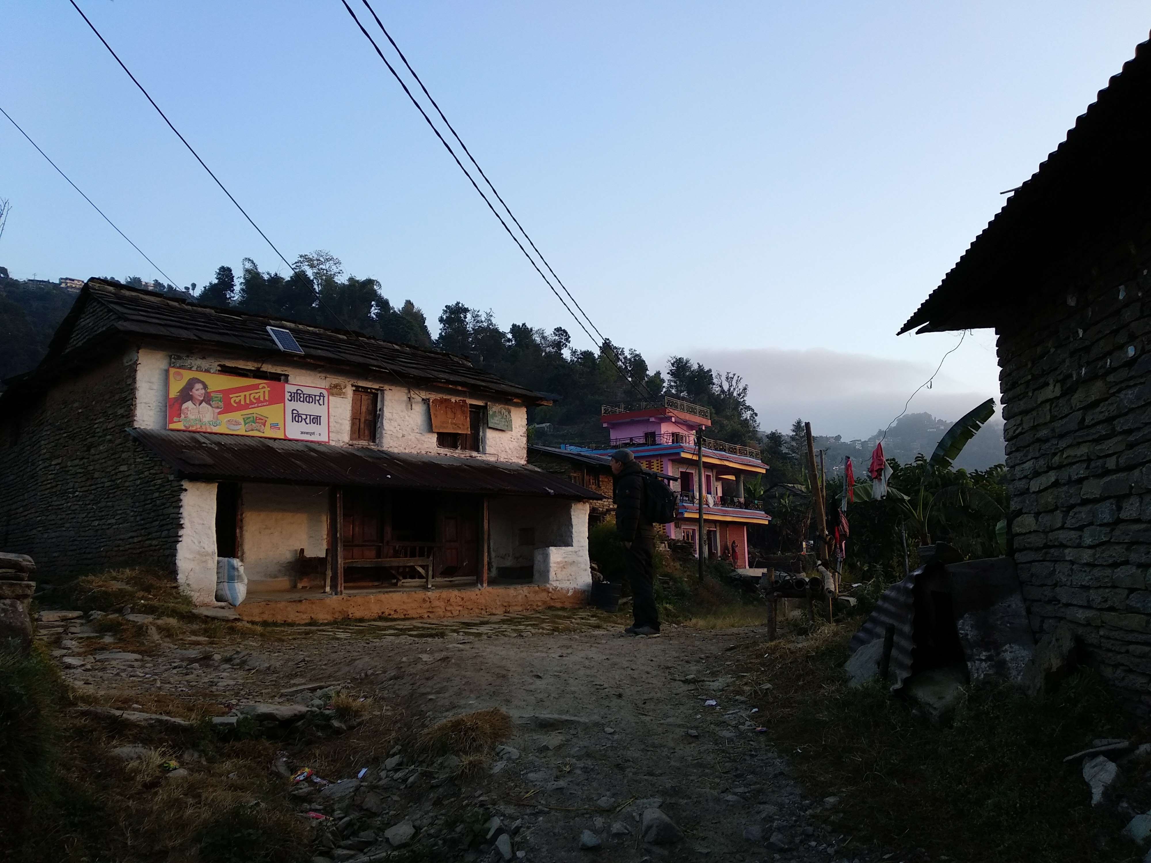 Main Chowk acting as a checkpoint to all the locals around the village.